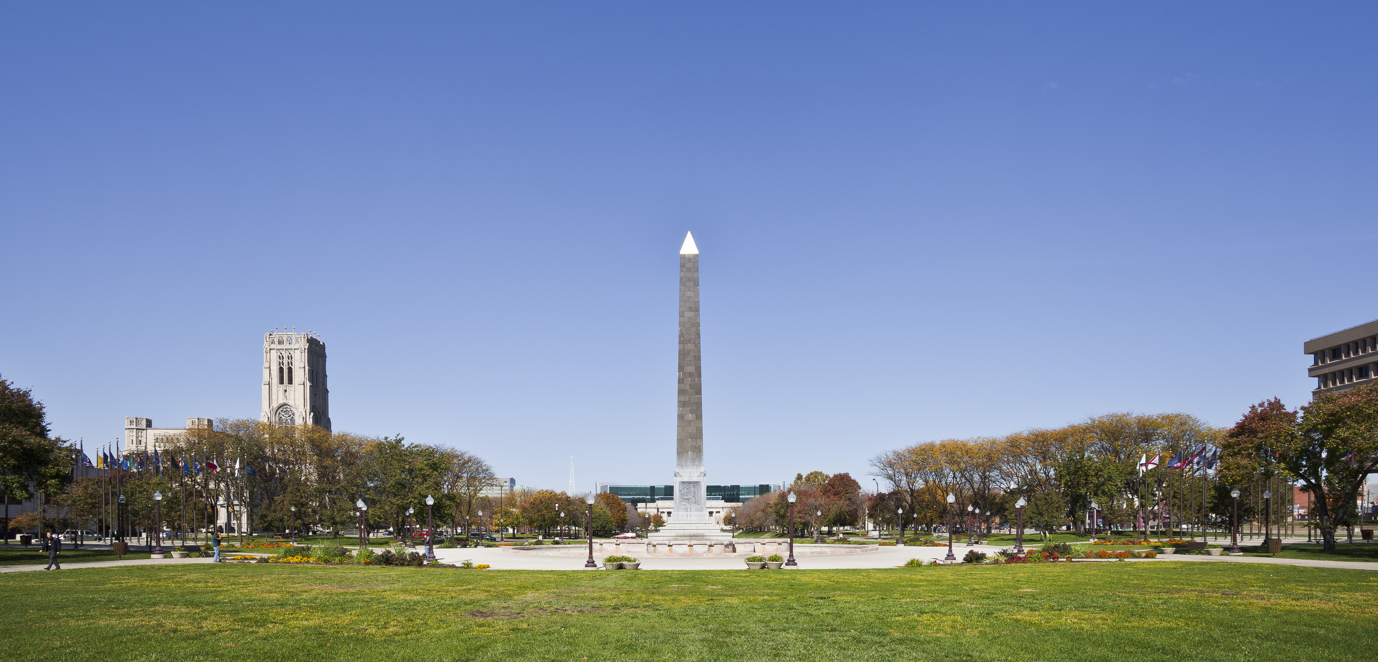 Indiana World War Memorial Plaza, Indianapolis, USA